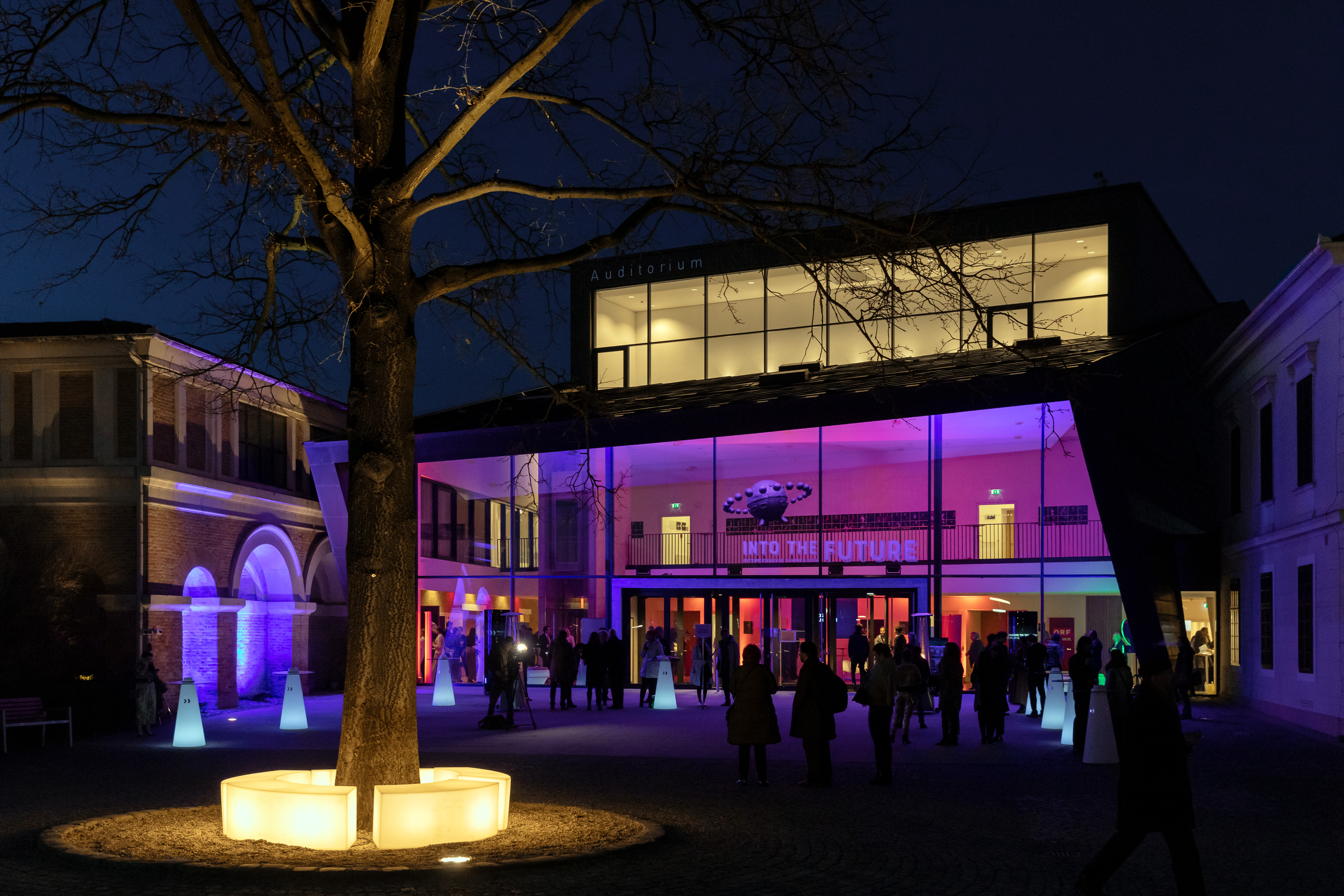 Austrian film awards at Grafenegg castle in Lower Austria, Austria.